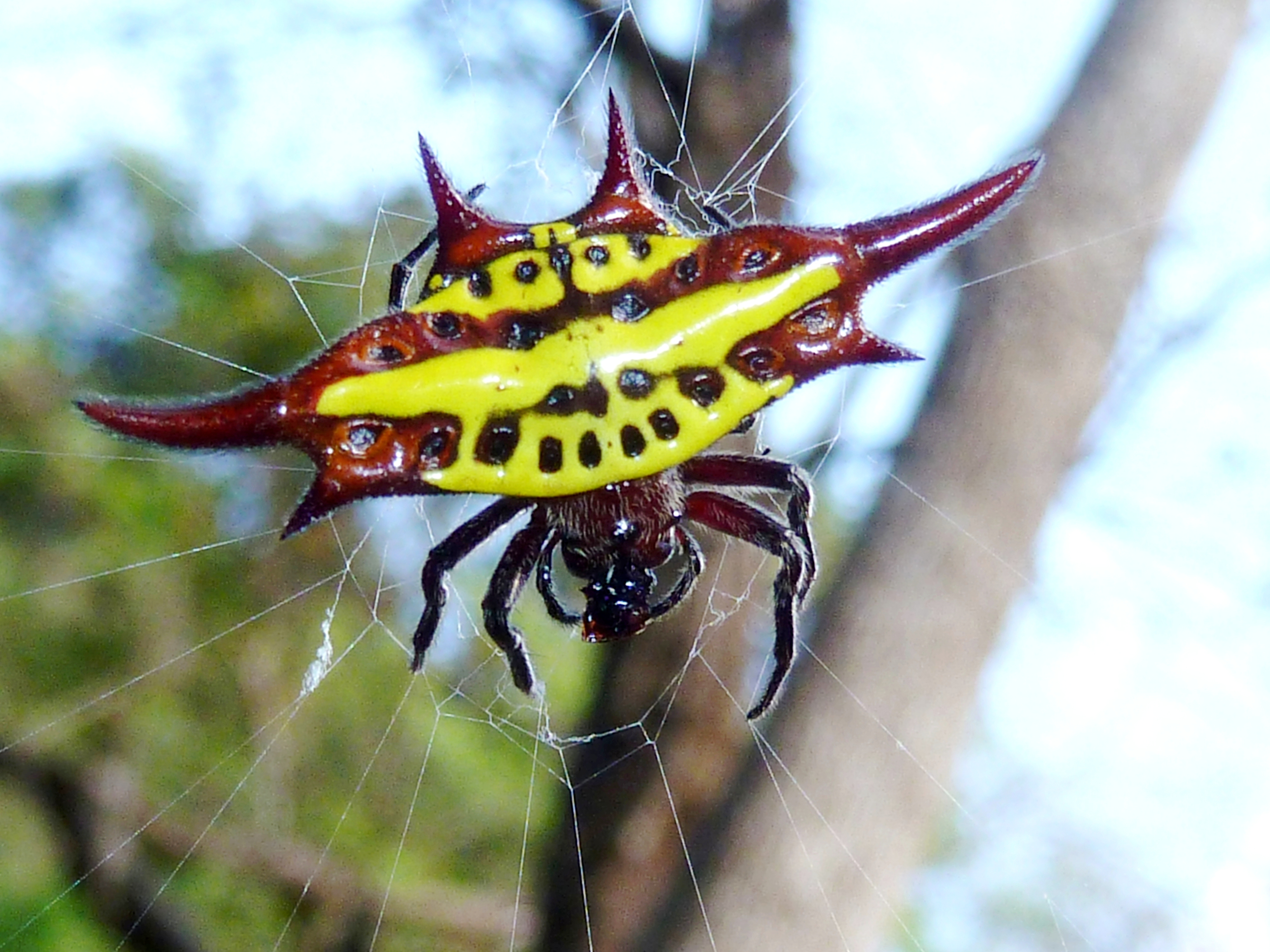 Long-winged kite spider in the Krantzkloof Nature Reserve in Kloof, KwaZulu-Natal